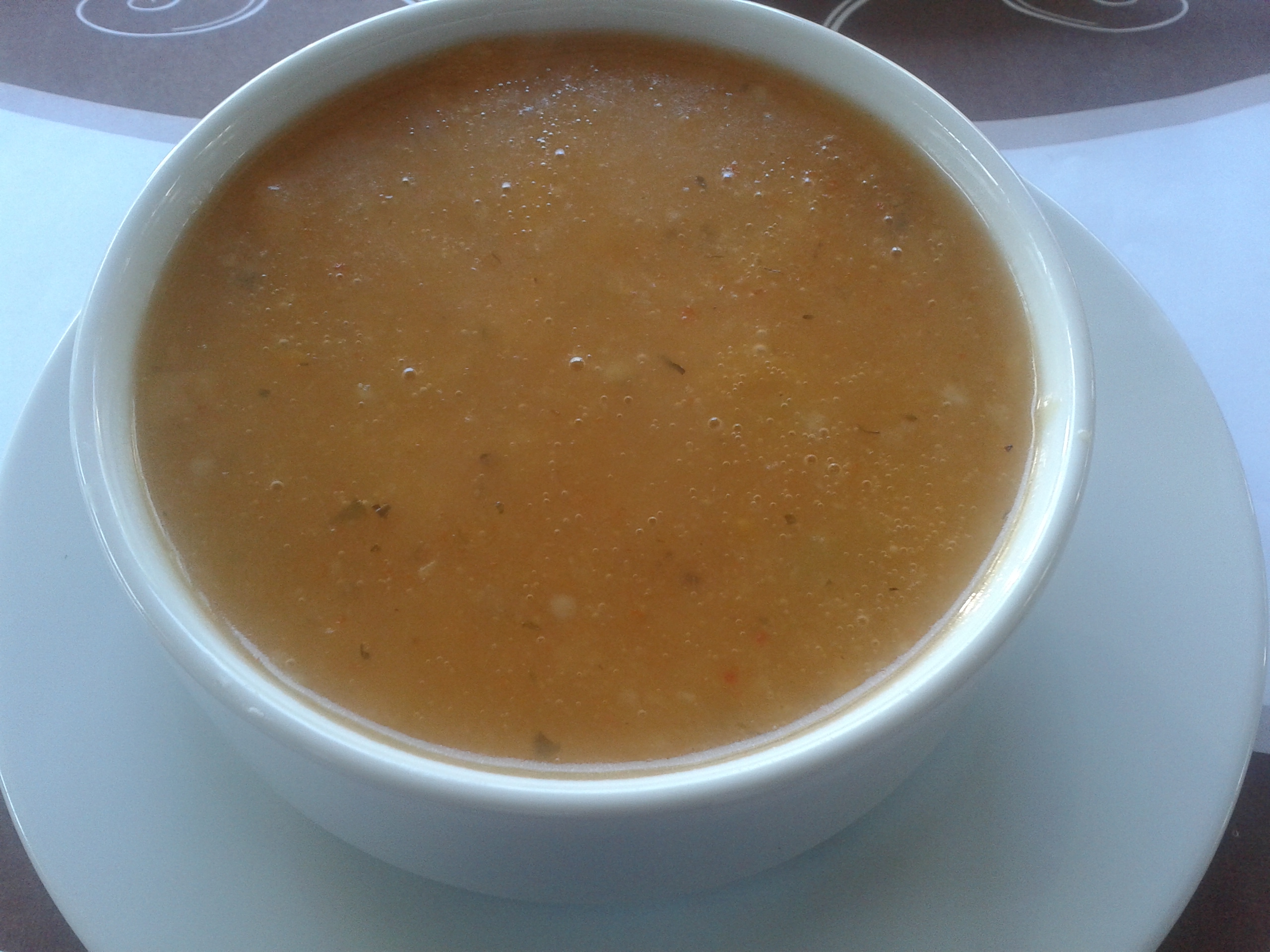 Tarhana soup in Turkey.